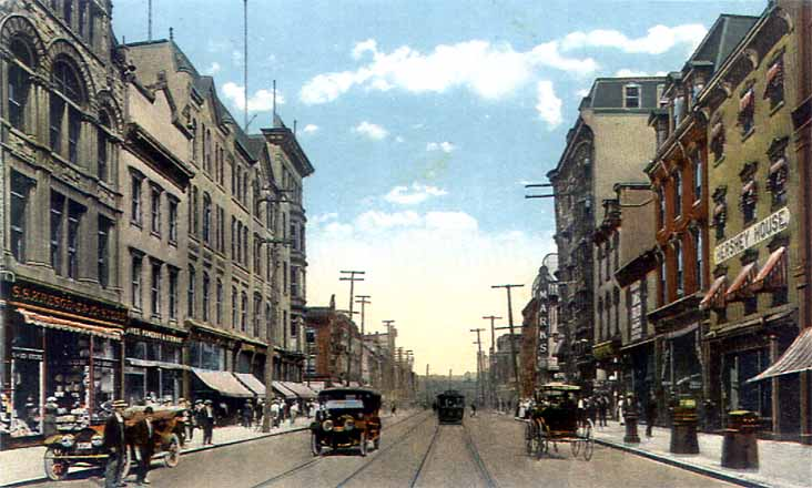 Postcard of Market Street in Harrisburg, Pennsylvania, circa 1910.